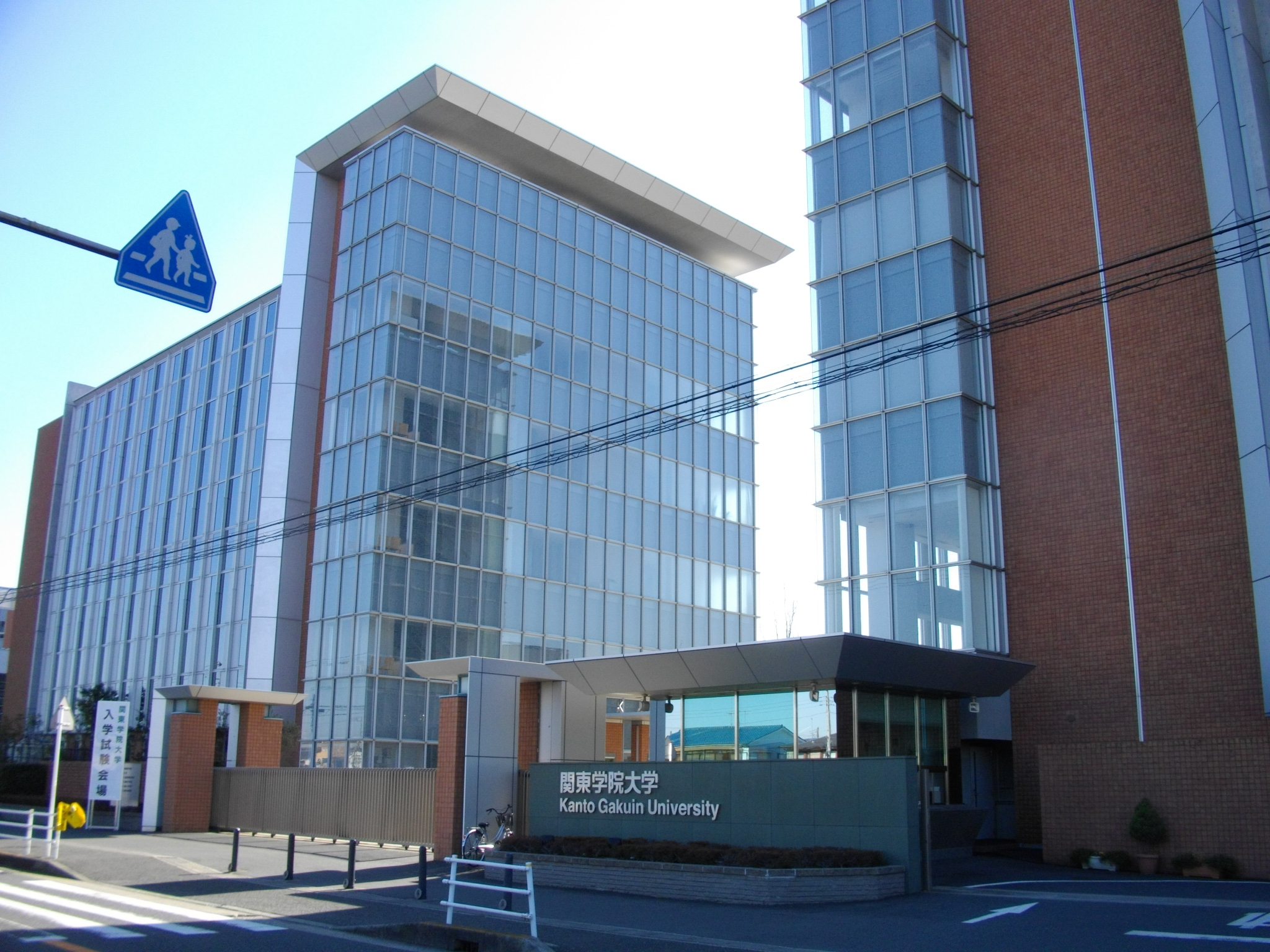 Kanto Gakuin University Kanazawa-Hakkei Campus